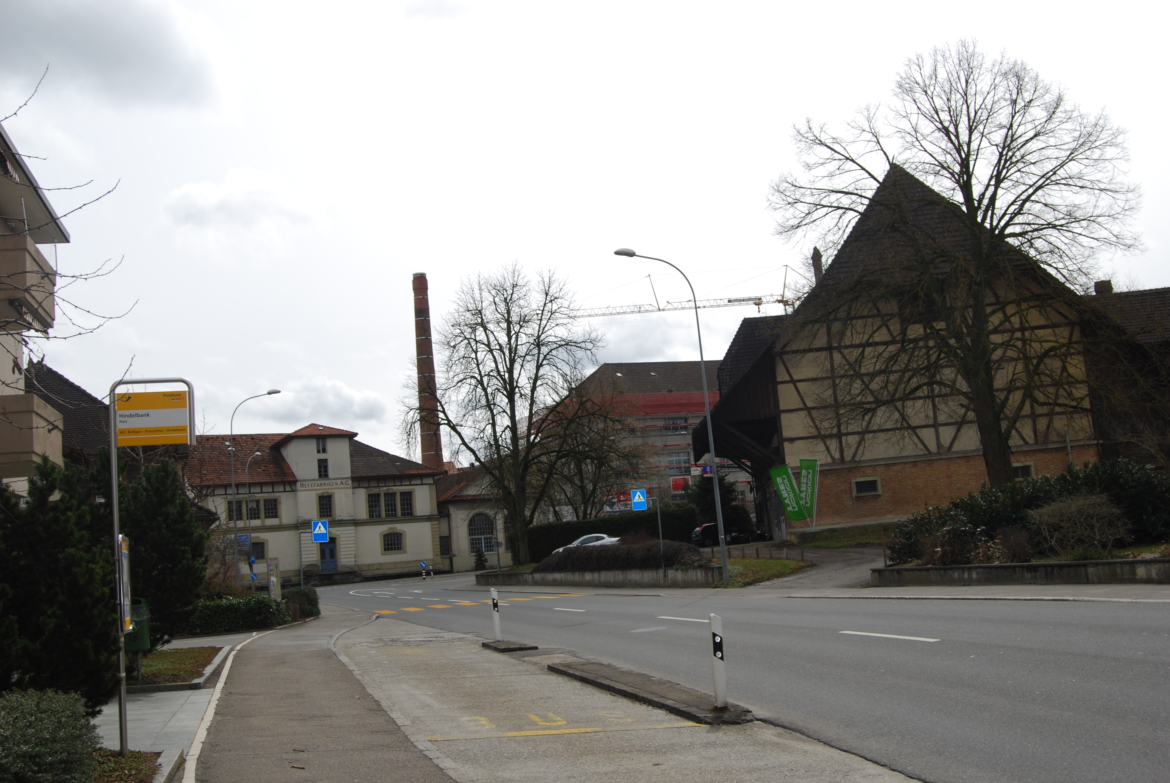 Village centre of Hindelbank, canton of Bern, SwitzerlandEsperanto: Vilaĝocentro de Hindelbank, Kantono Berno, Svislando